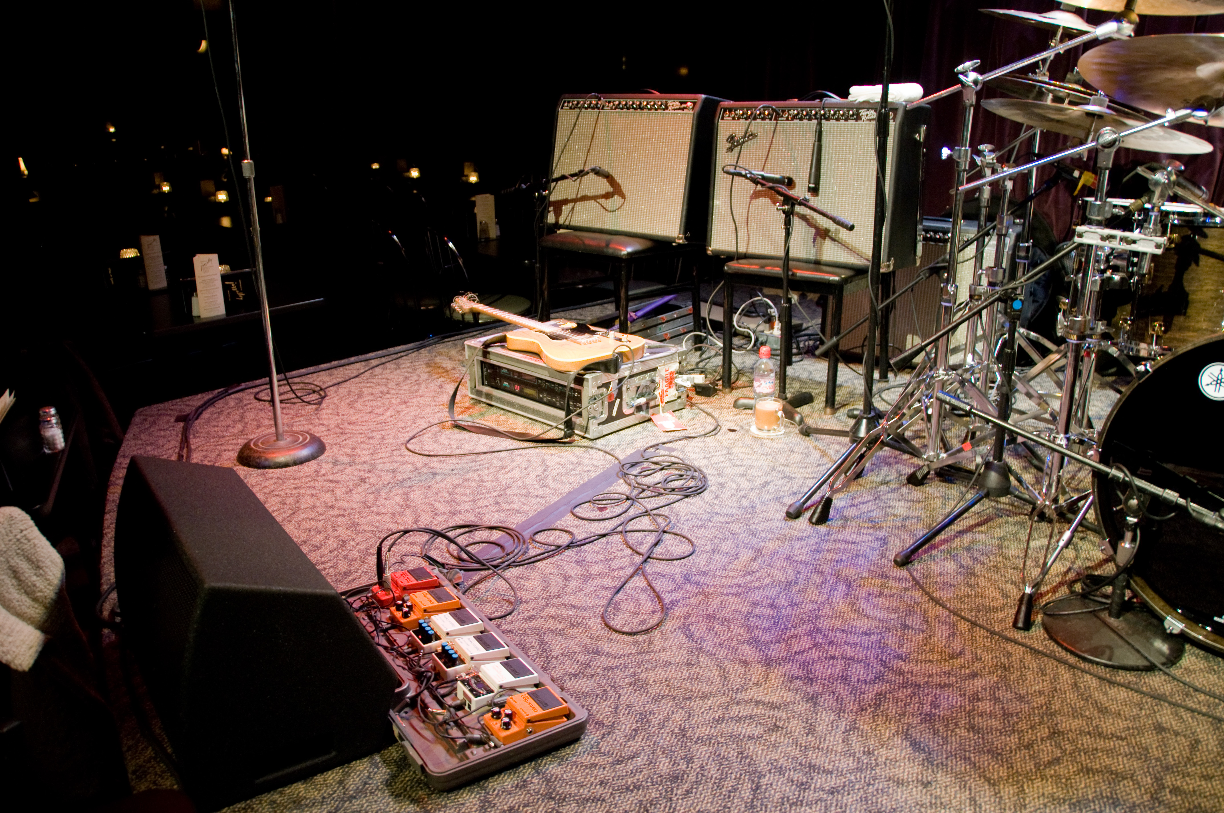 The perfect rebuttal for those guys who think they need the latest, greatest, most expensive guitar gear. (Just don't tell my wife I said that).